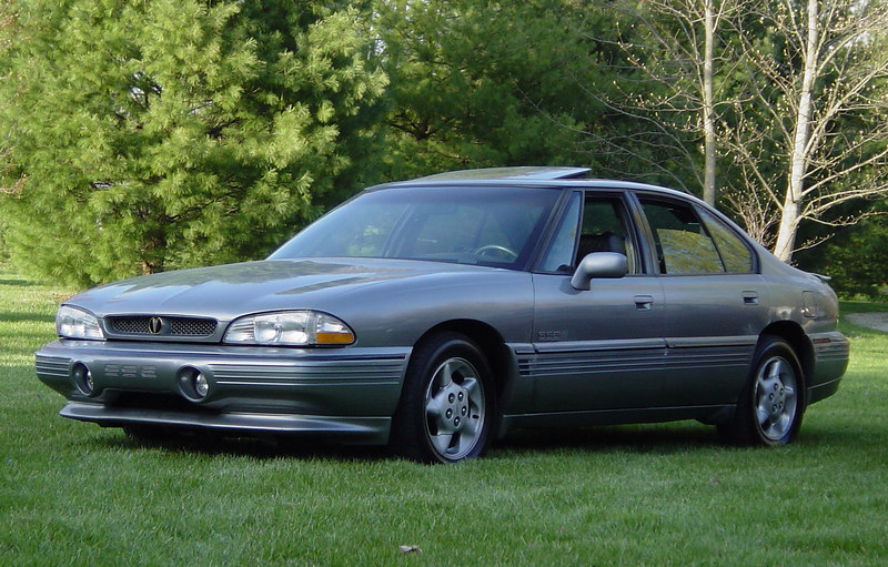 1995 Pontiac Bonneville SSEi Wjcollier07 (talk) 04:22, 21 September 2008 (UTC)